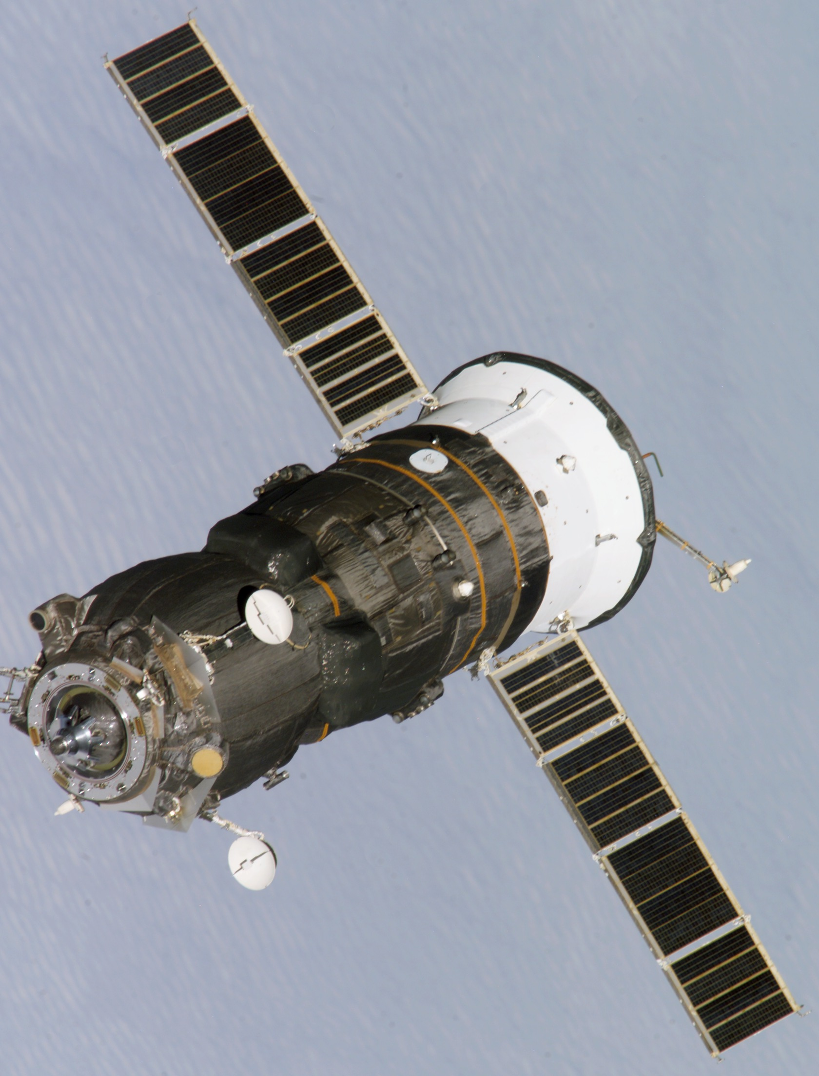 ISS Progress cargo spacecraft (NASA) An unpiloted Progress 11 supply vehicle departs from the Pirs Docking Compartment on the International Space Station (ISS) at 2:42 p.m. (CDT) on September 4, 2003 for another month alone in orbit, as part of a Russian scientific experiment. It will then be deorbited with its load of trash and unneeded equipment and burn in the Earth's atmosphere.